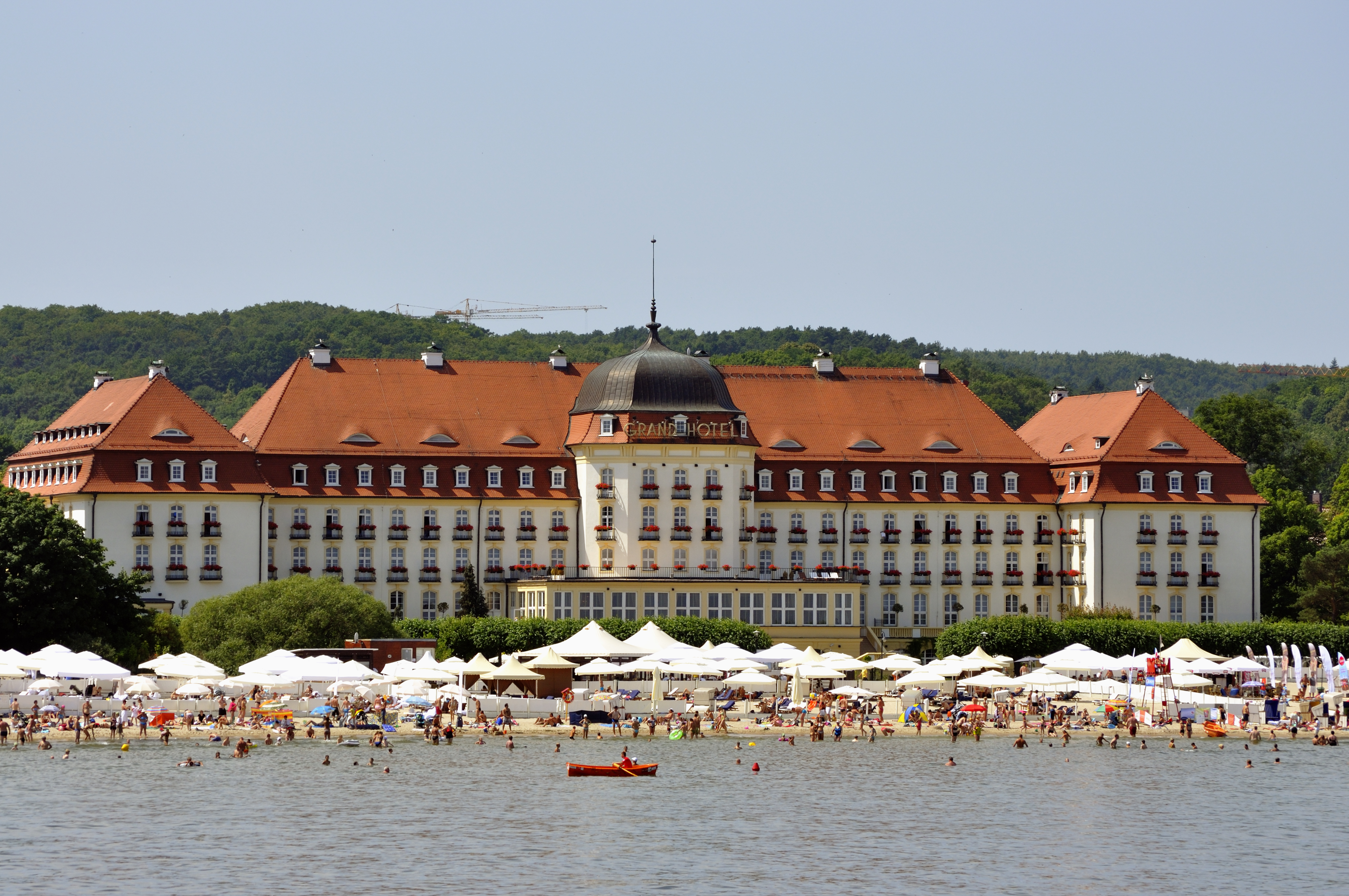 Picture taken in Sopot after Wikimania 2010 conference.